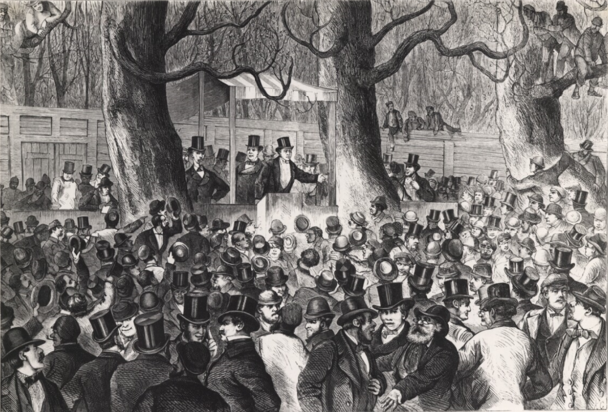 Dlection day in Copenhagen's 5th Constituency at Rosenbo0rg Exerceerplads on 25 April 1876